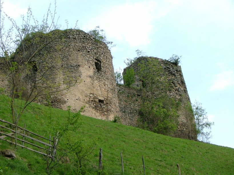 The Bologa castle in Cluj County, Romania